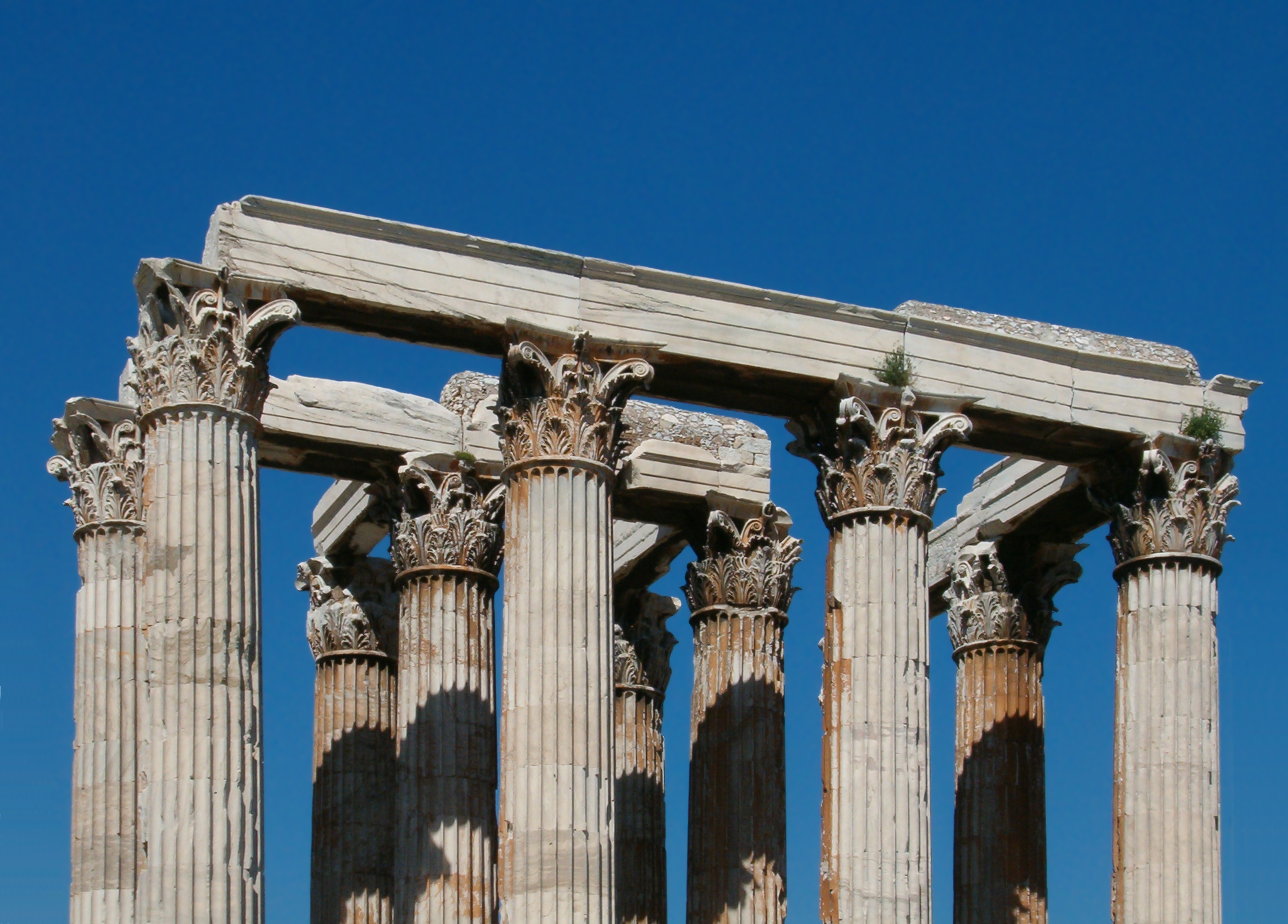 Temple of Olympian Zeus in Athens